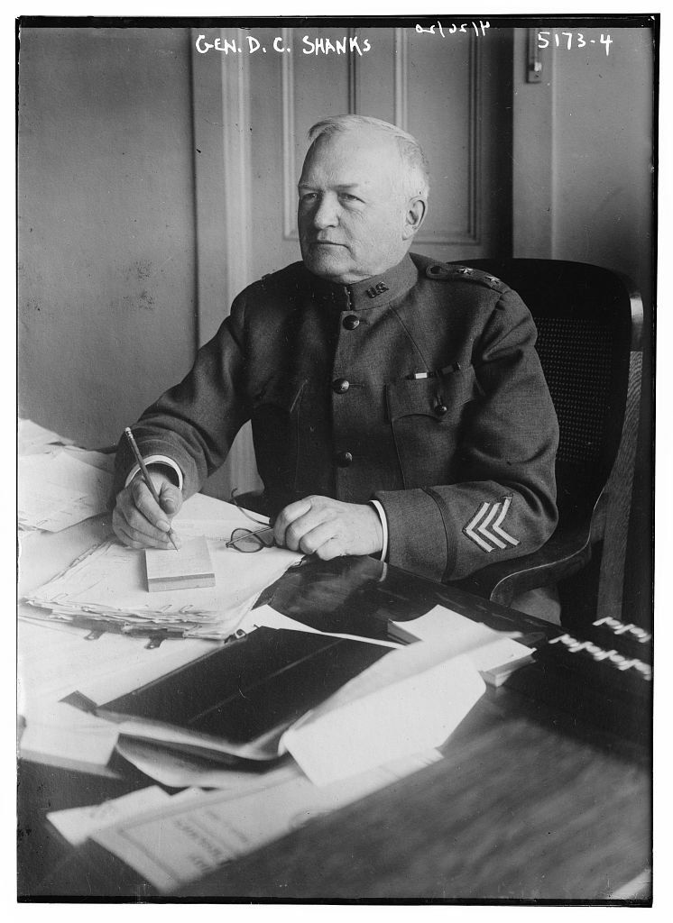 David Carey Shanks (1861-1940) in 1920